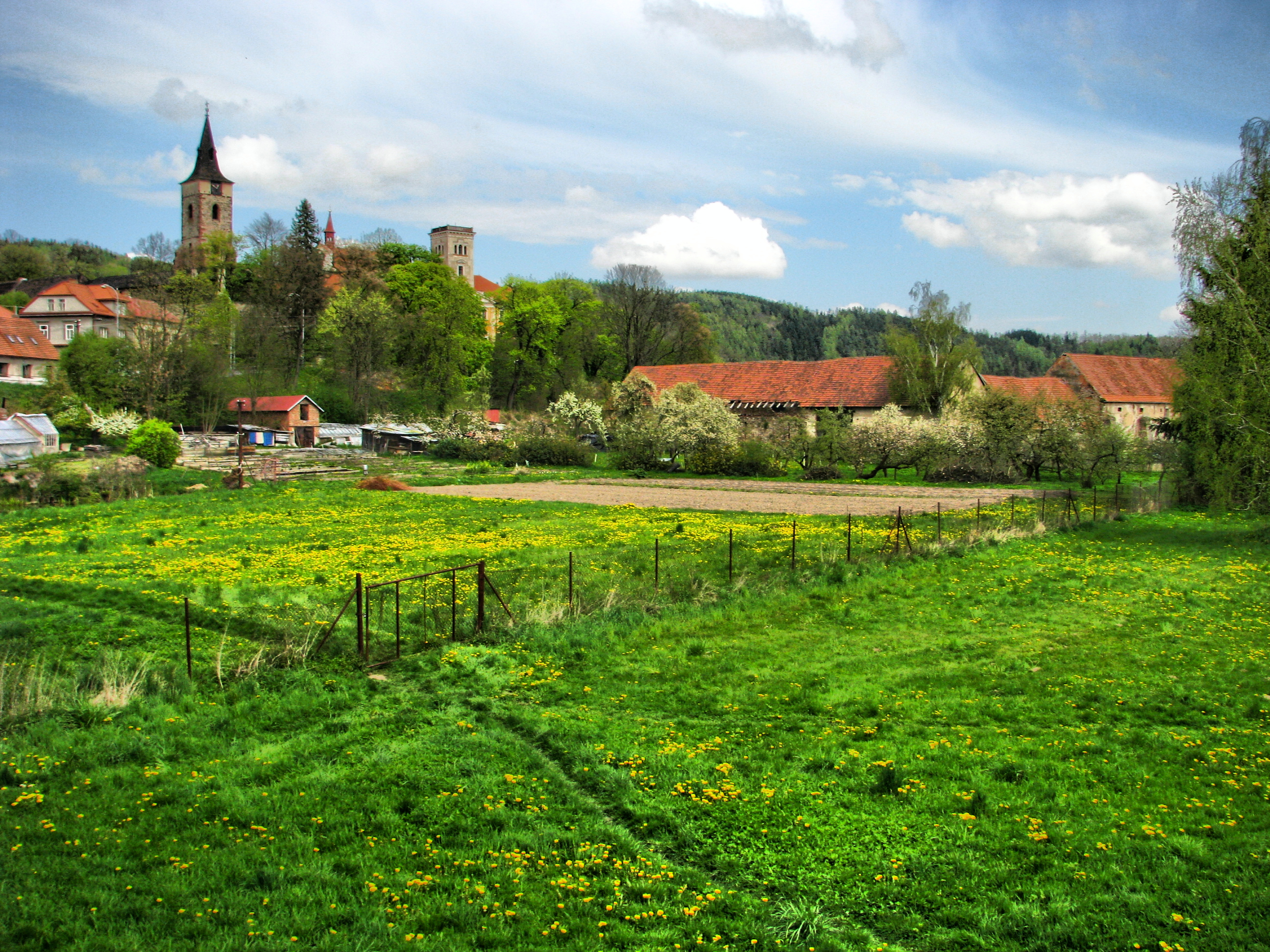 Sázavský monastery seen from the south-west, 49.8753 N, 14.8962 E